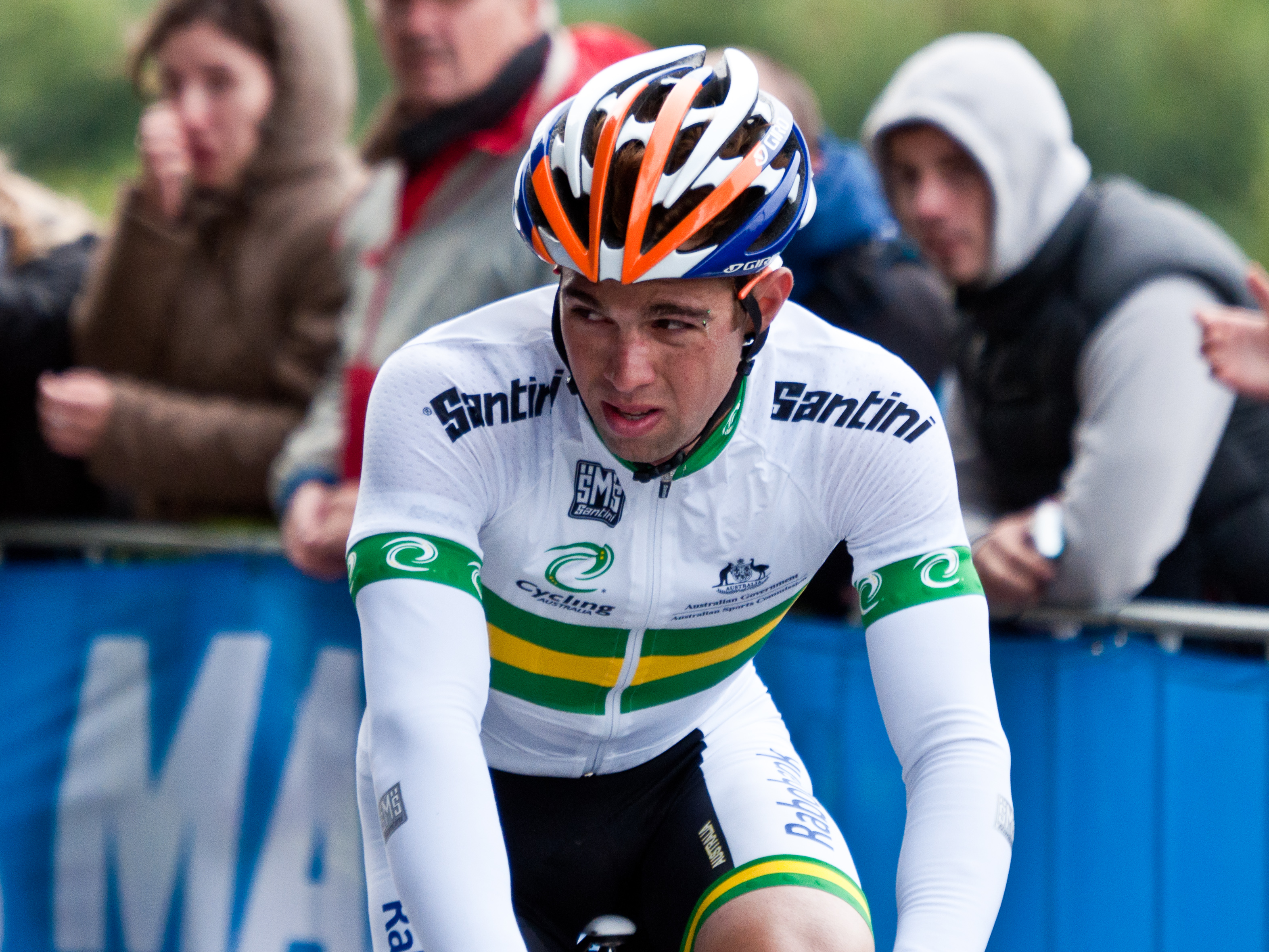 An afternoon on the Bemelerberg during the World Championship cycling around Valkenburg, The Netherlands on September 23, 2012.